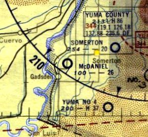 Federal Aviation Administration (FAA) 1955 Phoenix Sectional Chart depicting Yuma Auxiliary Army Air Field No. 4 as well as McDaniel Field and Somerton Field in Yuma, Arizona